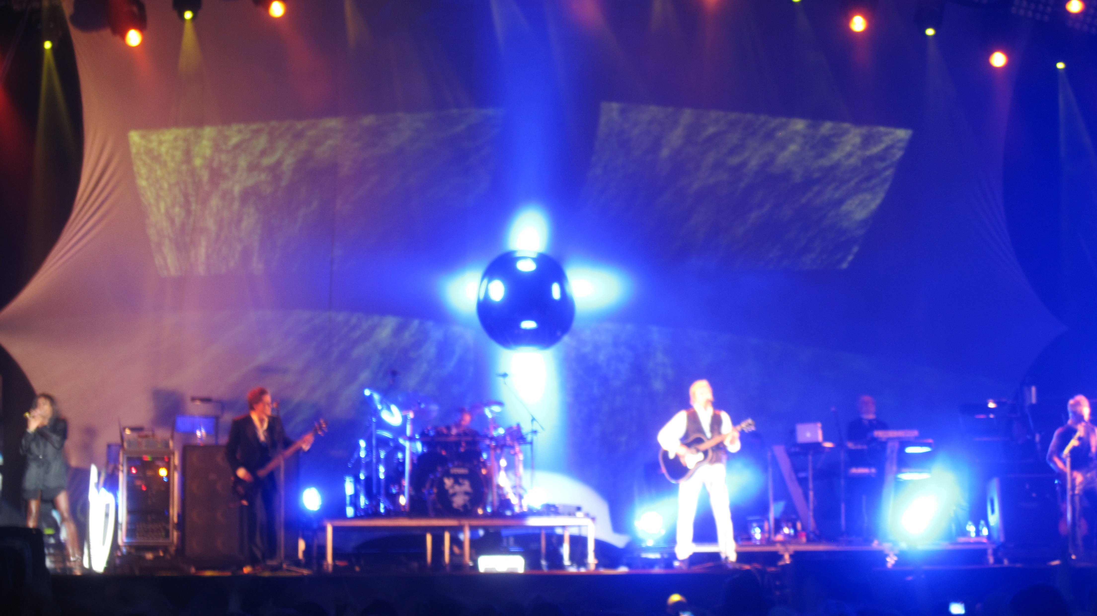 Duran Duran live in London.